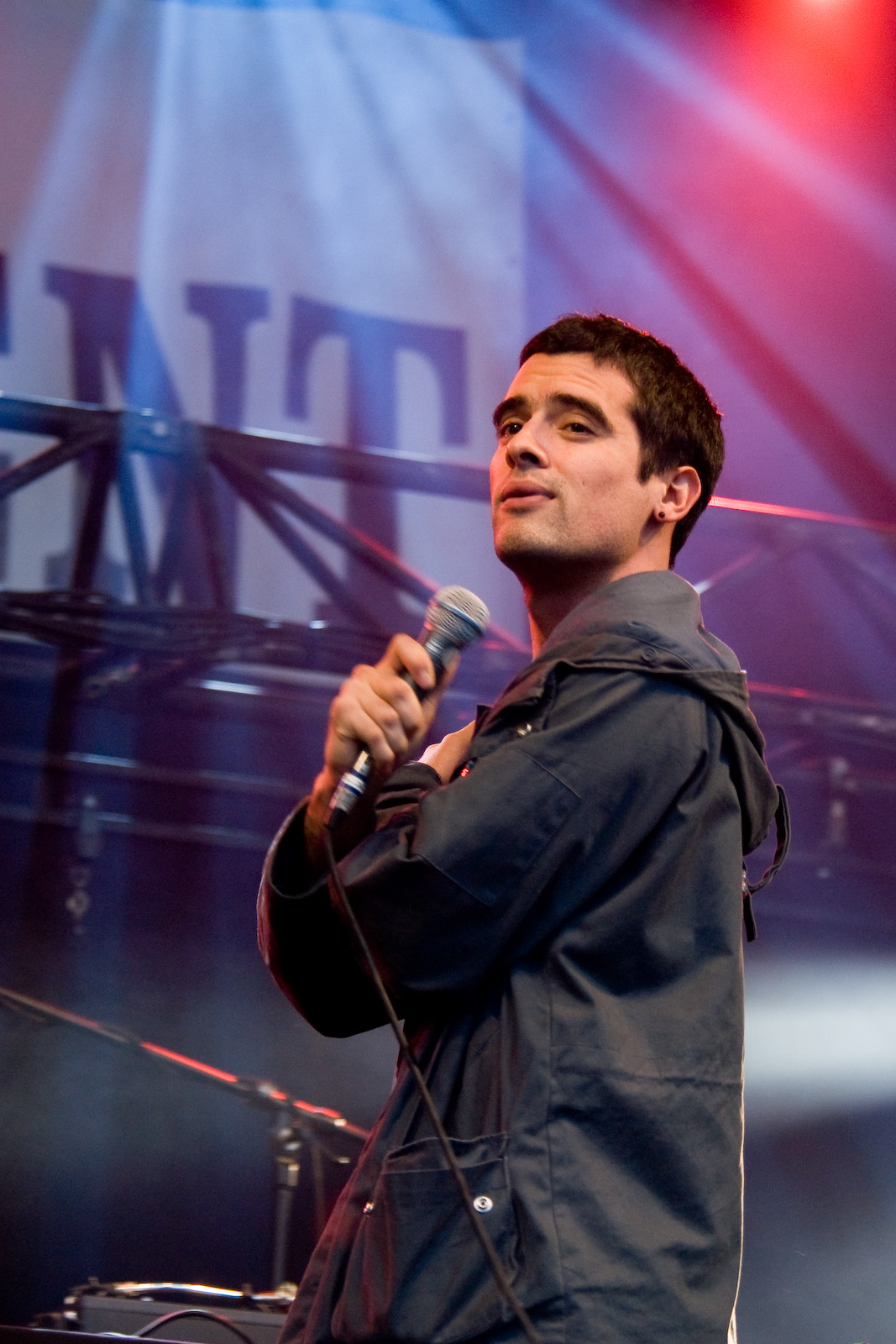 Gabriel Rios, 0110 concert on 1 November 2006 in Gent, Belgium